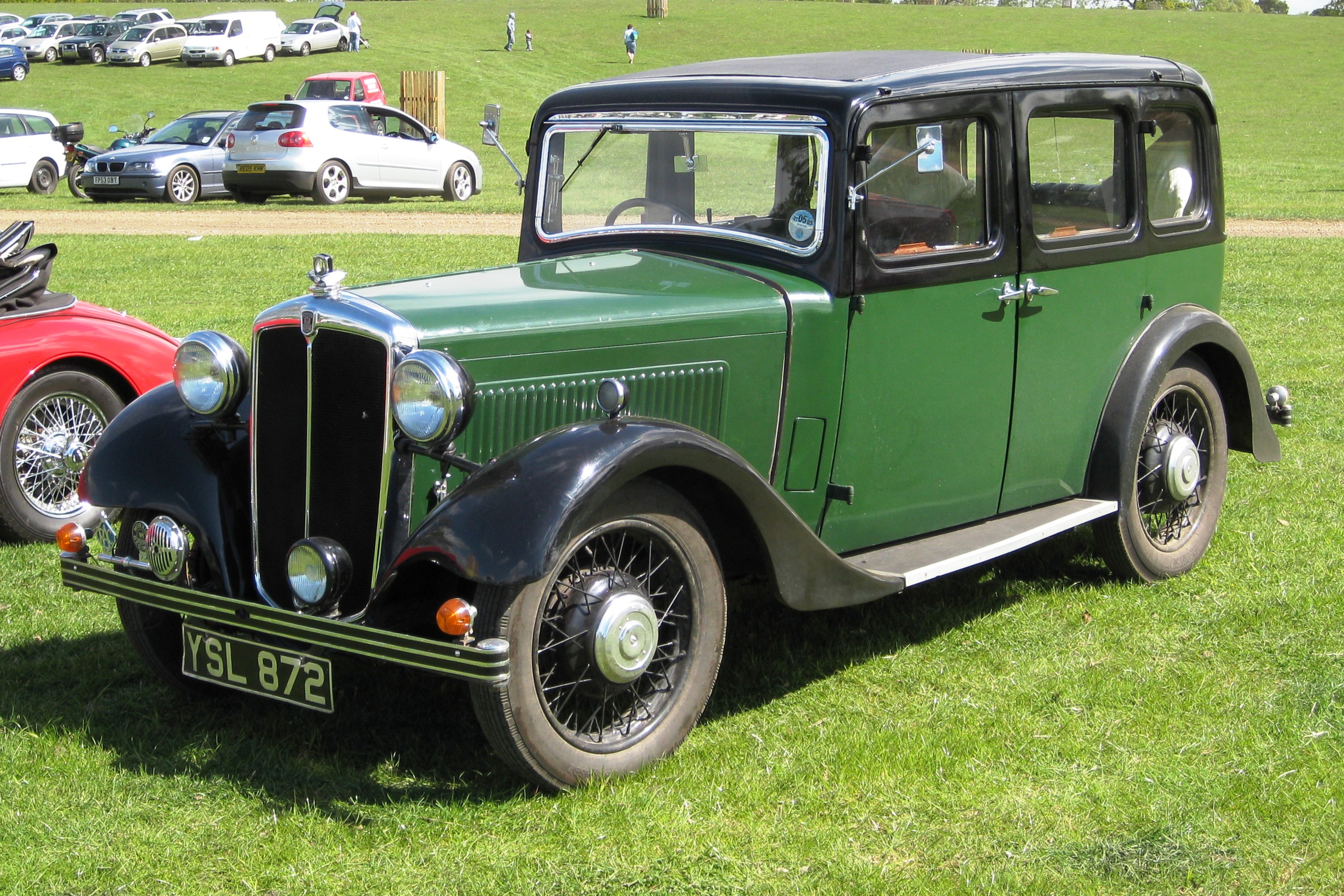 Morris Twelve-Four